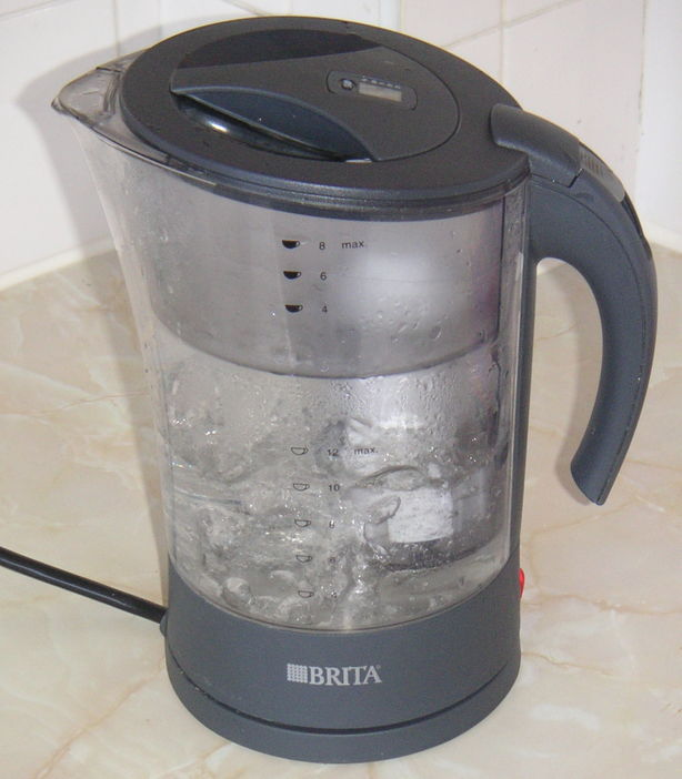 Self-made photograph of a Brita kettle in use.